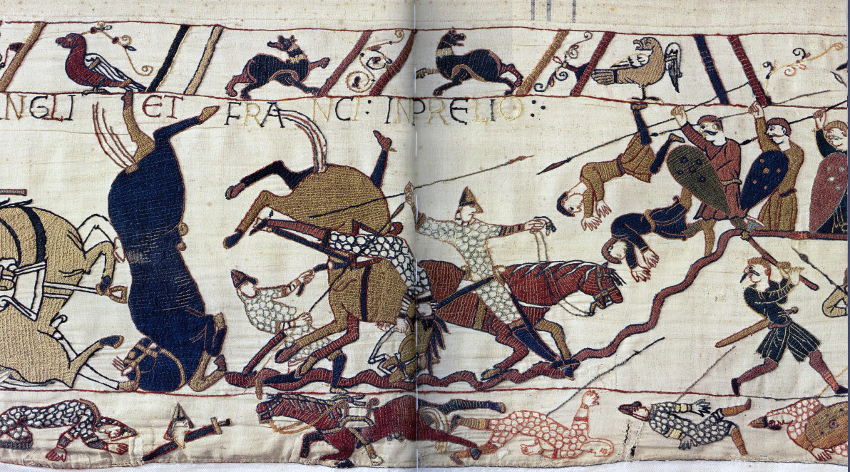 Bayeux Tapestry scene of Battle of Hastings showing knights and horses